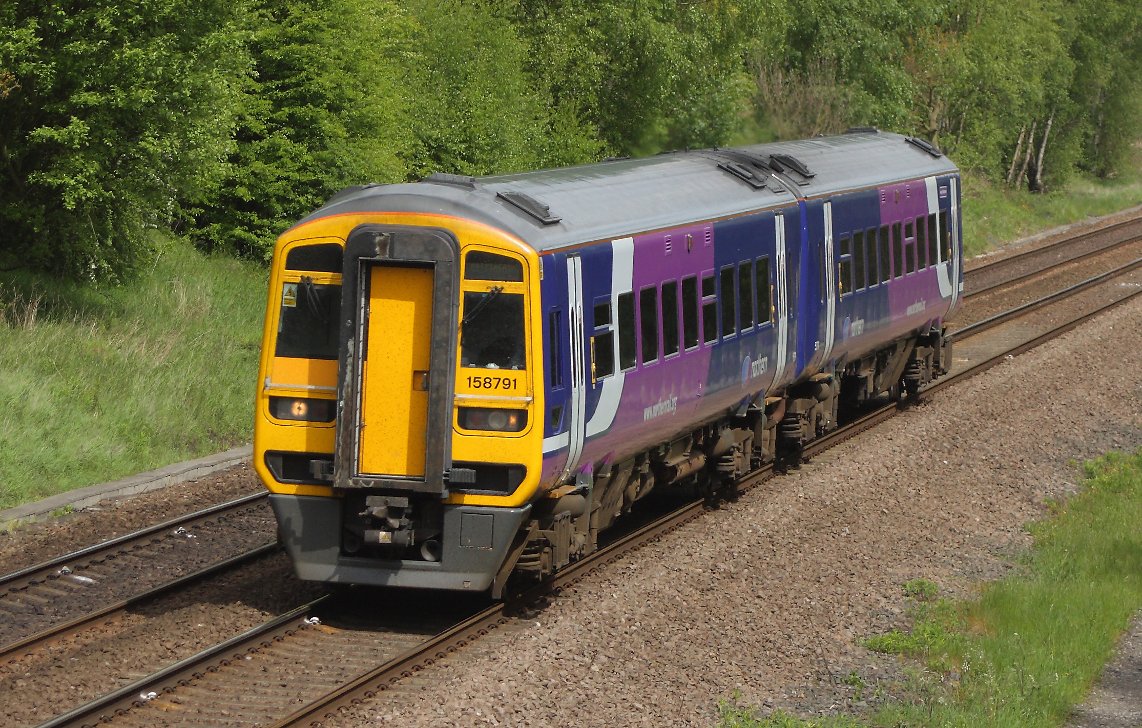 158791 at Padley Wood with a Northern Rail Leeds- Nottingham service